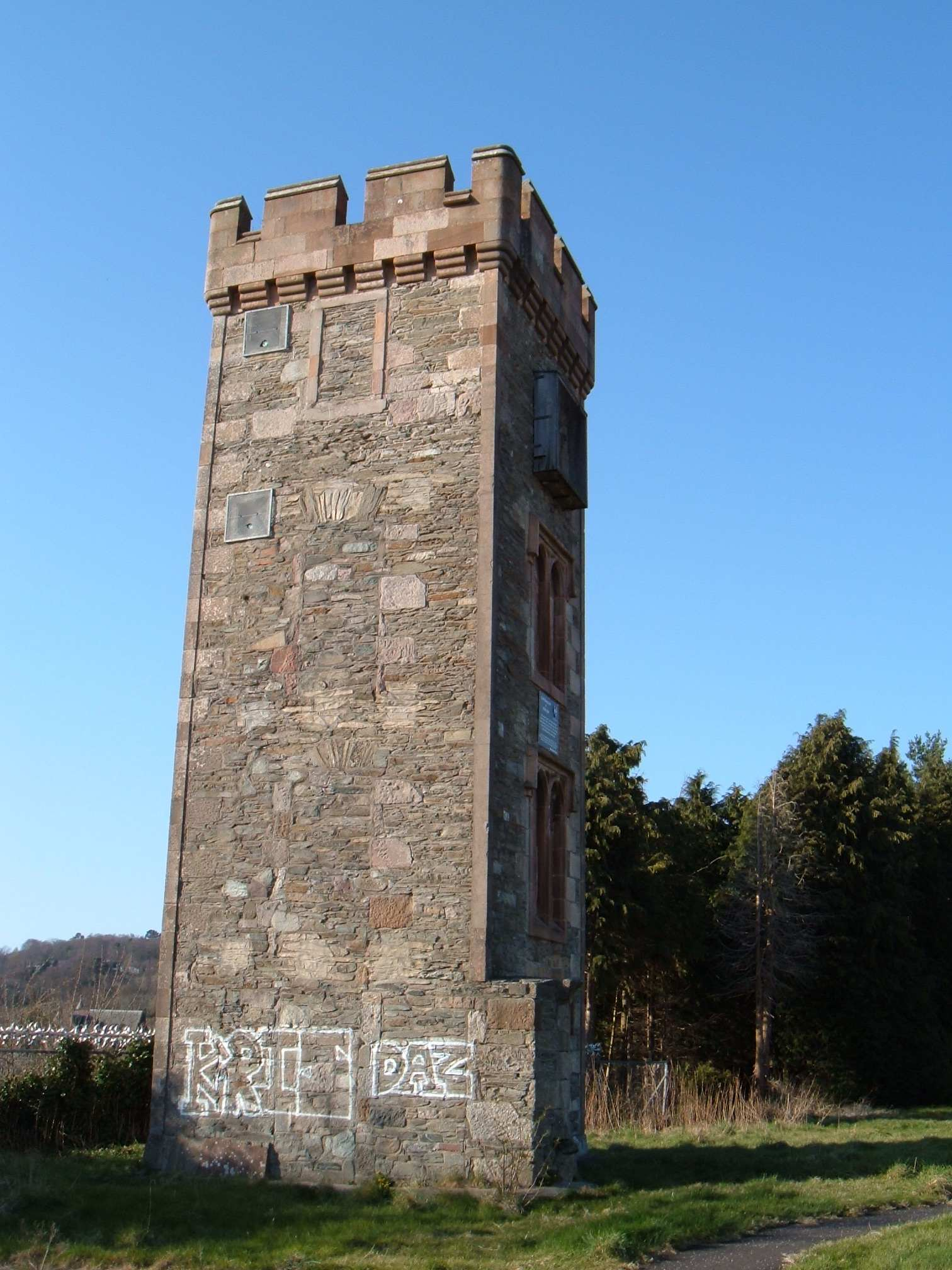 A view of the tower of Ardencaple Castle, the former seat of the Clan MacAulay. Now used to house navigation lights for sea vessels.